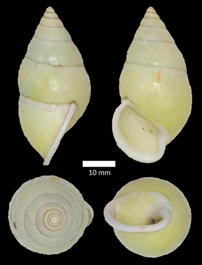 Photo of shell of Amphidromus atricallosus perakensis. Locality: BOR/MOL 8285. Perak, Ipoh, outcrop 500 m.